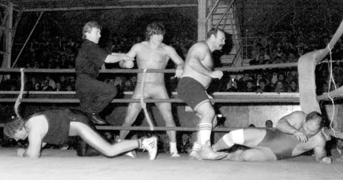 One of Andrzej Supron's pro wrestling events